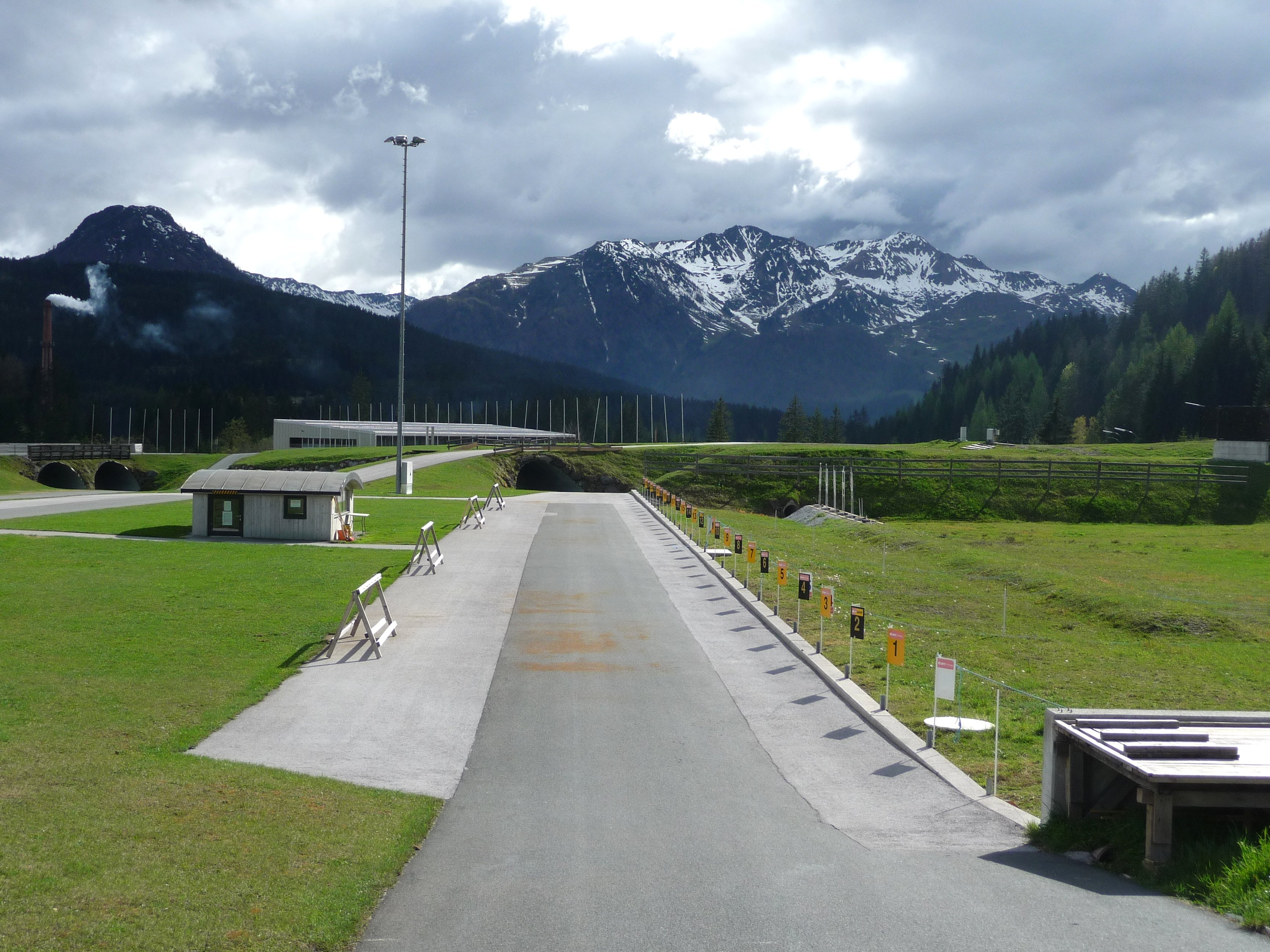 Biathlon stadium Hochfilzen, Austria, in spring